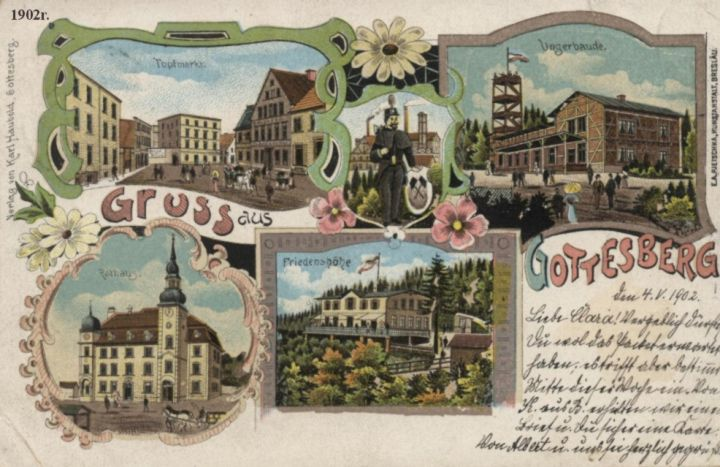 Postcard vom (Gottesberg) Boguszów-Gorce from 1902